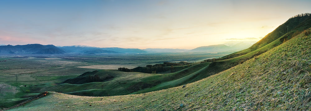 Uymon steppe, Altay. View from Chendek.